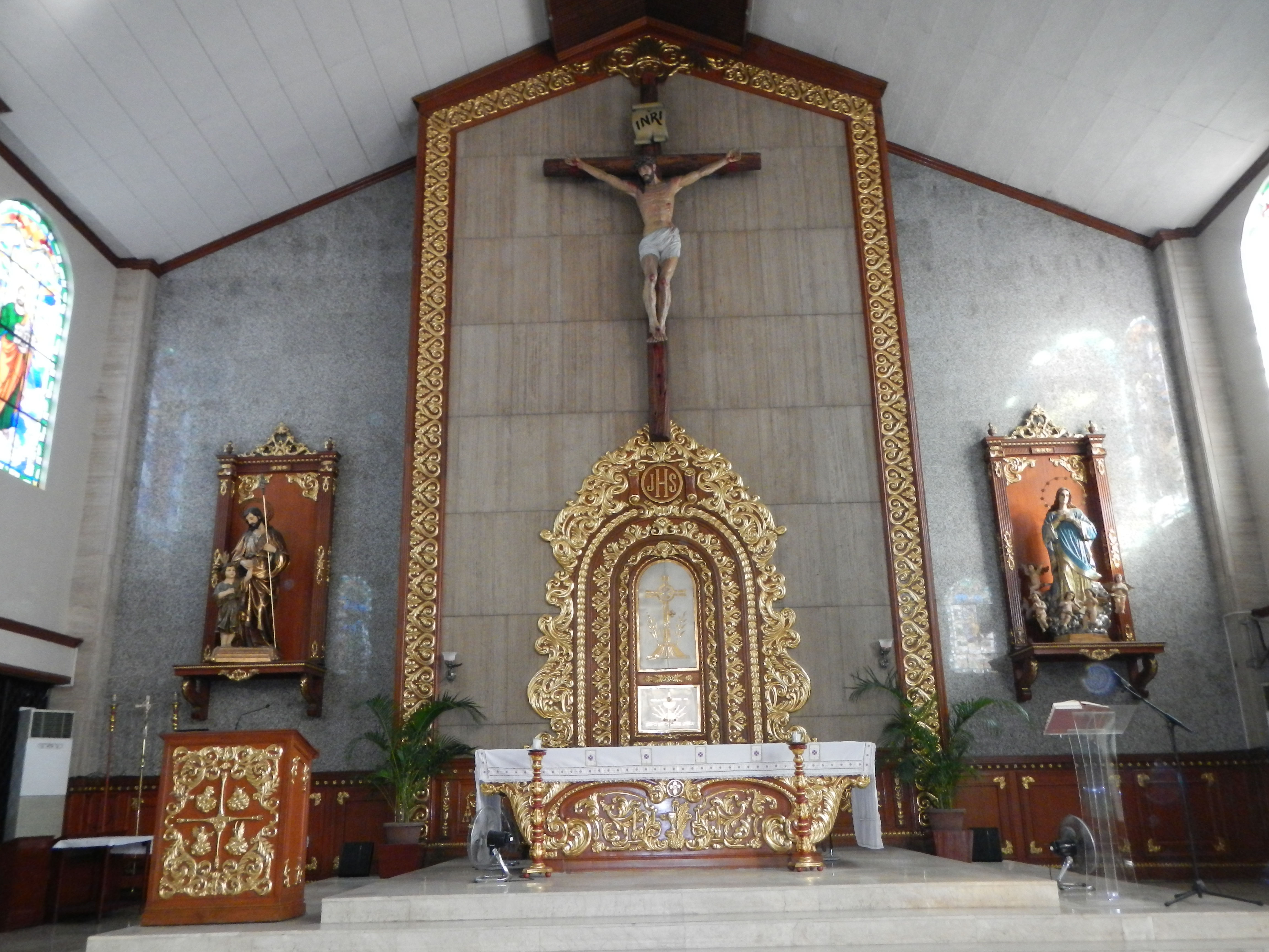 Santuario de San Jose[1]Santuario de San Jose (Sanctuary of Saint Joseph) is a parish church found inside the Green Hills East Village in Mandaluyong City[2], Philippines - of the Roman Catholic Archdiocese of Manila[3] (Vicariate of St. John the Baptist. It is designated as the Shrine of Saint Joseph the Patriarch. It is run by the Oblates of St. Joseph (OSJ). It is the home parish of different chapels: the Holy Family Chapel (inside the Greenhills Shopping Center) and the two chapels of Crame, Immaculate Conception and Sacred Heart. It is named after its principal patron, St. Joseph, husband of Mary. Secondary patron saints include St. Joseph Marello, founder of the Oblates of St. Joseph, and the Sacred Heart of Jesus. Its principal feast day is on March 19, the Solemnity of St. Joseph, Husband of the Blessed Virgin Mary. Secondary feasts include the Solemnity of the Sacred Heart of Jesus and the feast day of St. Joseph Marello. As of June 1, 2010, Rev. Fr. Maximo Sevilla, Jr., OSJ - Parish Priest.[4][5]Buffalo corner Duke Streets, East Greenhills, Mandaluyong City, Philippines Coordinates: 14°36'0"N 121°3'11"E Parish Priest: Fr. Maximo Sevilla, OSJ